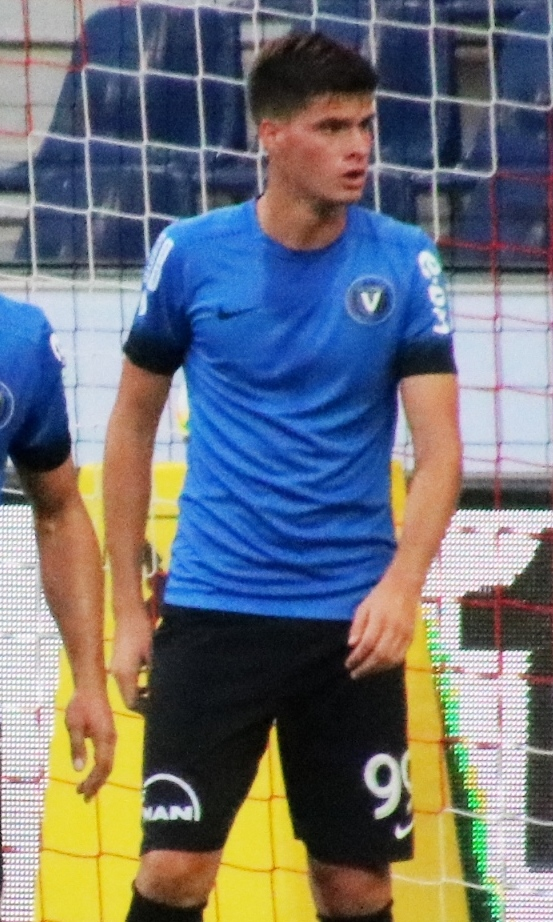 Euroleague play off 2nd leg